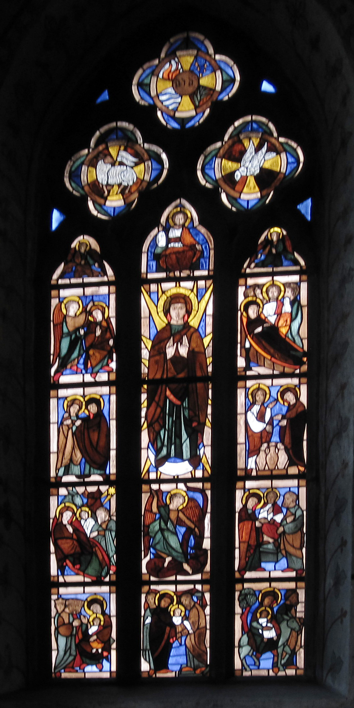 Church of Saint Mary, Sigtuna, Sweden. Church window.